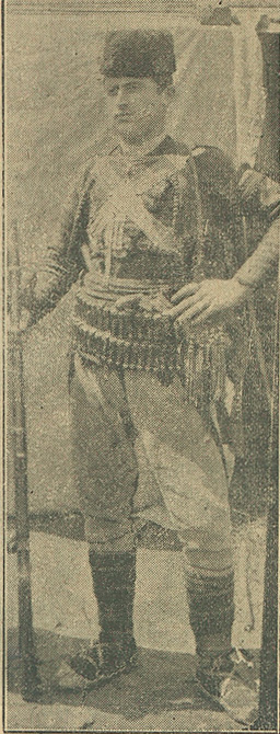 Portrait of bulgarian revolutionary from IMARO Ivancho Karasuliiski